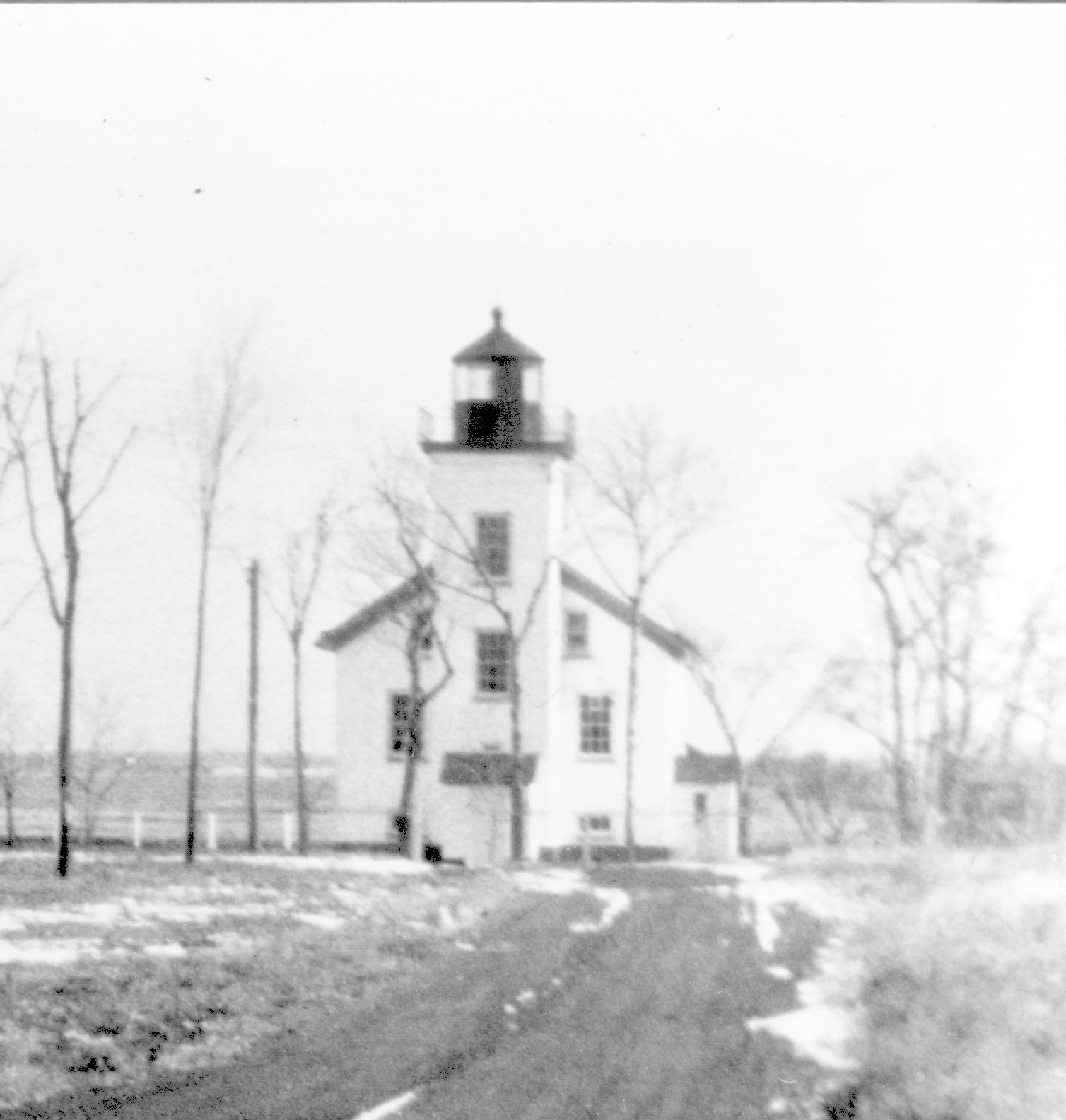 Sand Point Lighthouse, Escanaba, Michiga